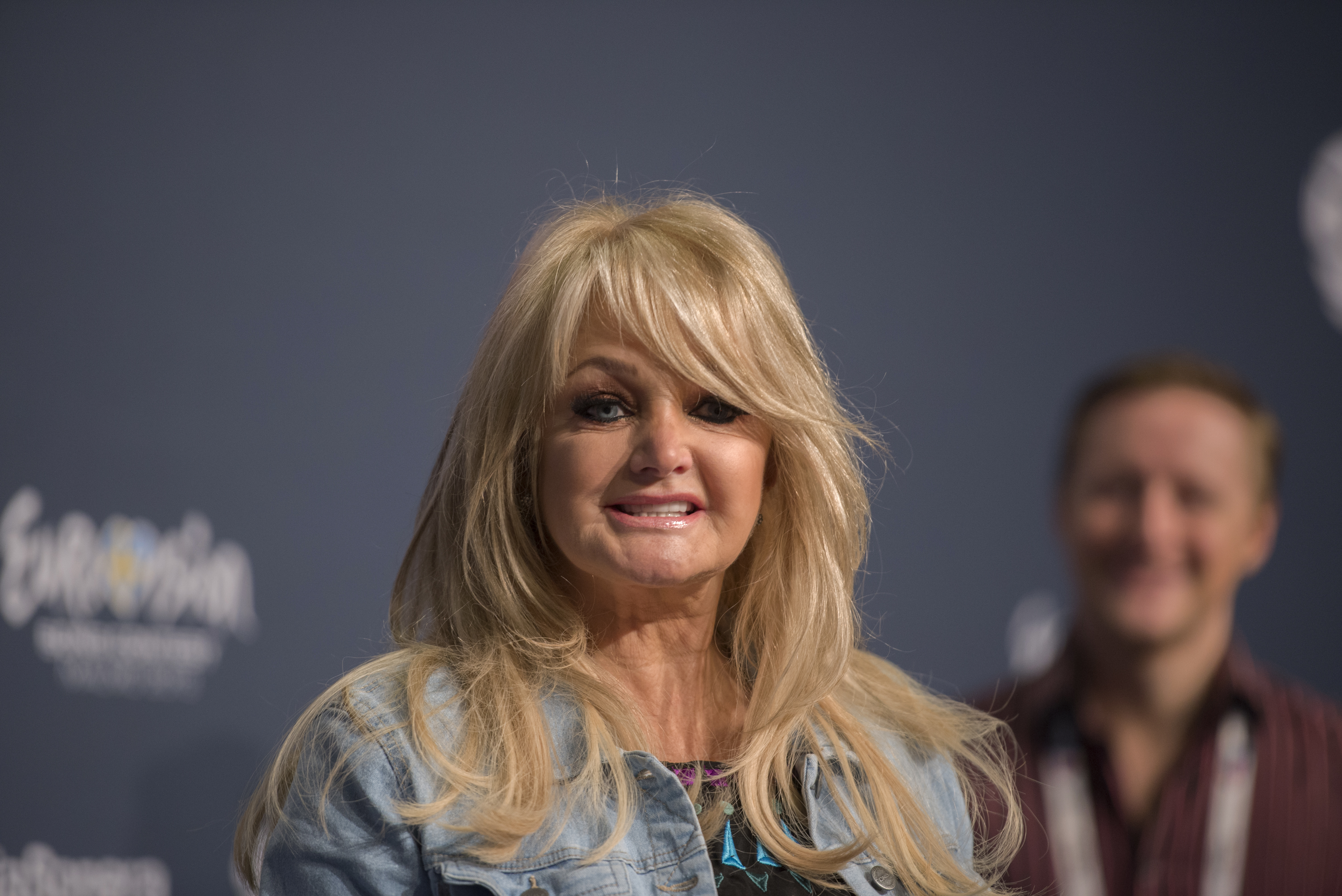 Bonnie Tyler at a press conference during the Eurovision Song Contest 2013 in Malmö. (Help translate this text)